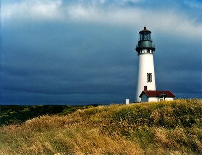 Newport, OR - Yaquina Head lighthouse